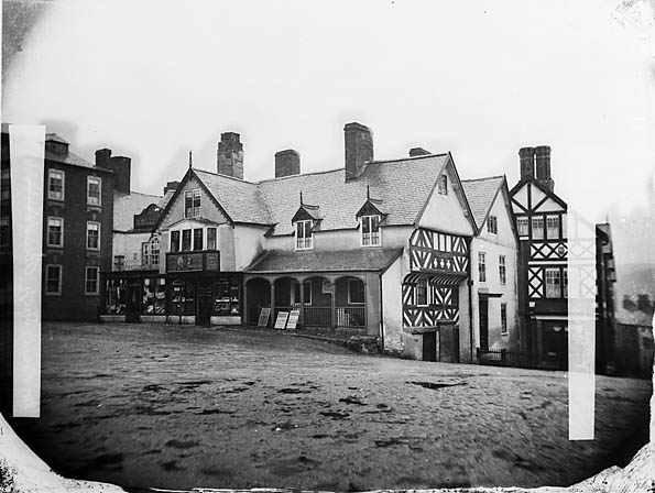 1 negative : glass, wet collodion, b&w ; 16.5 x 21.5 cm.